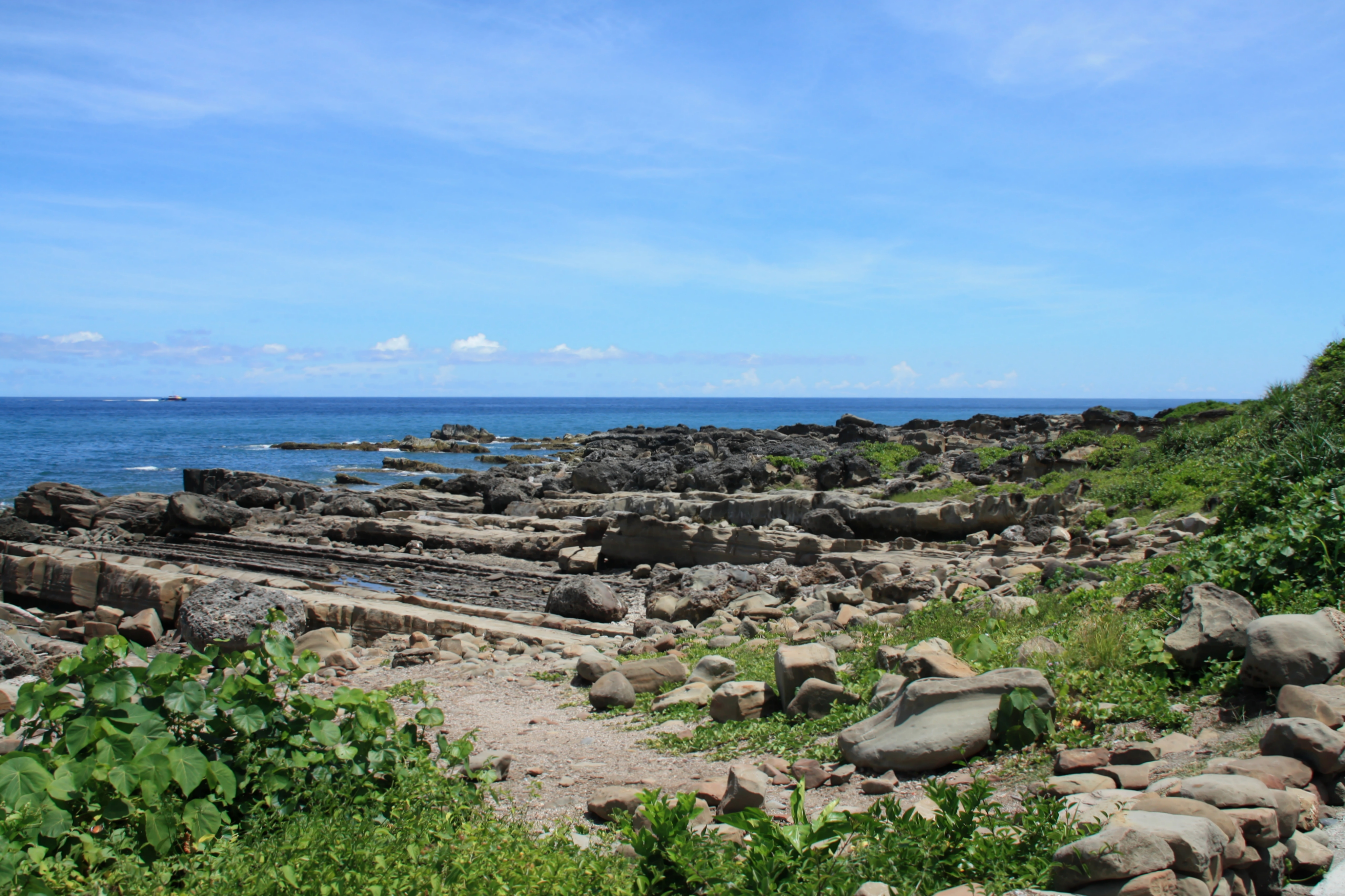 Taitung CountyTaitung CitySiaoyeliou Area